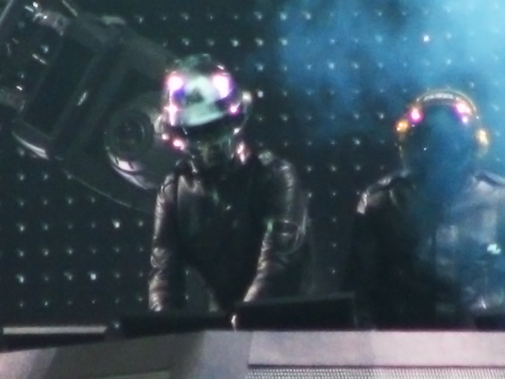 Robot Rock, Coachella 2006